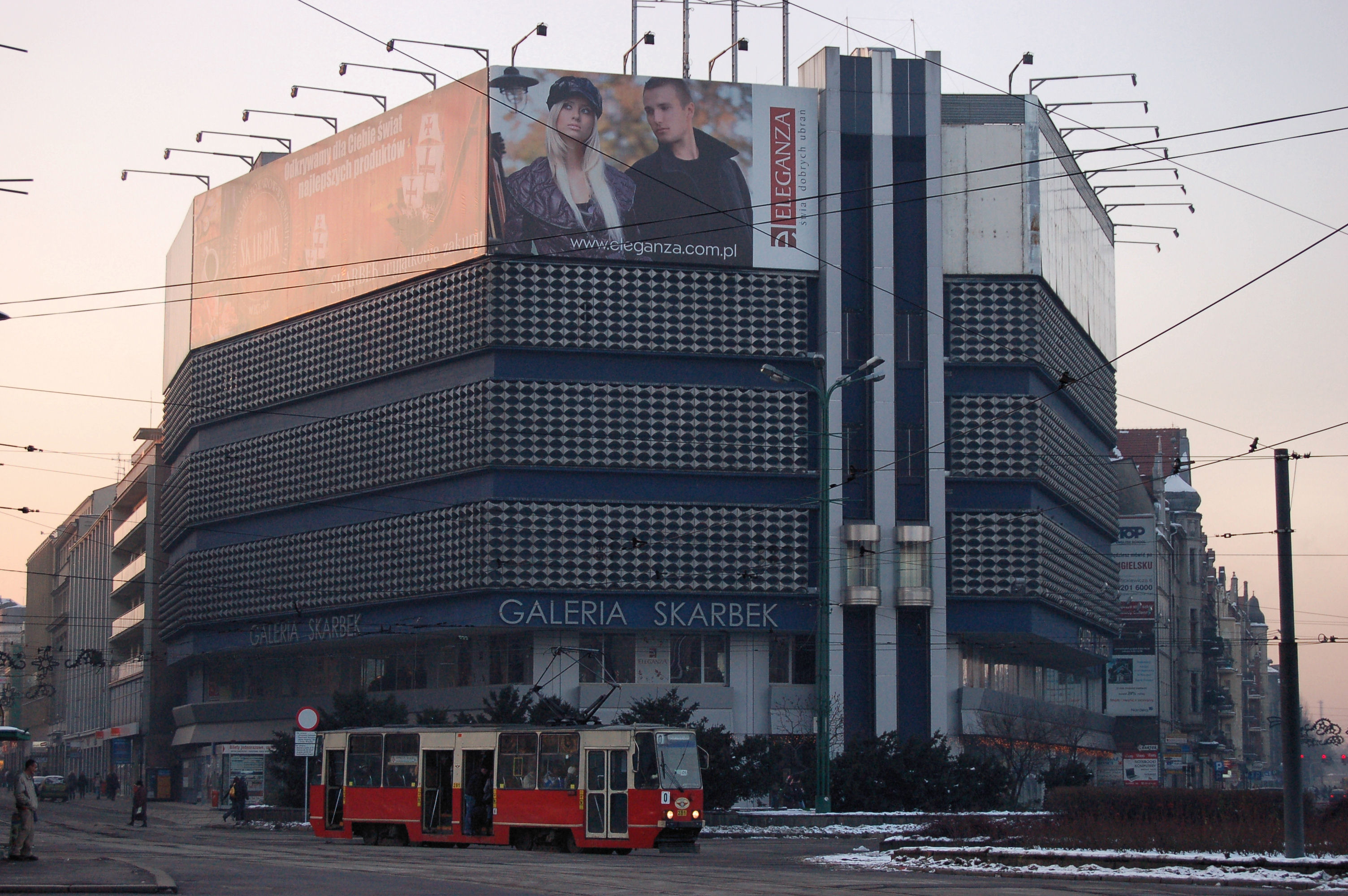 DH Skarbek on Market Square in Katowice